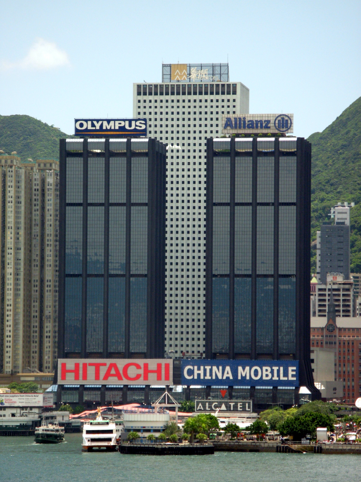 鷹君中心 HK Great Eagle Centre